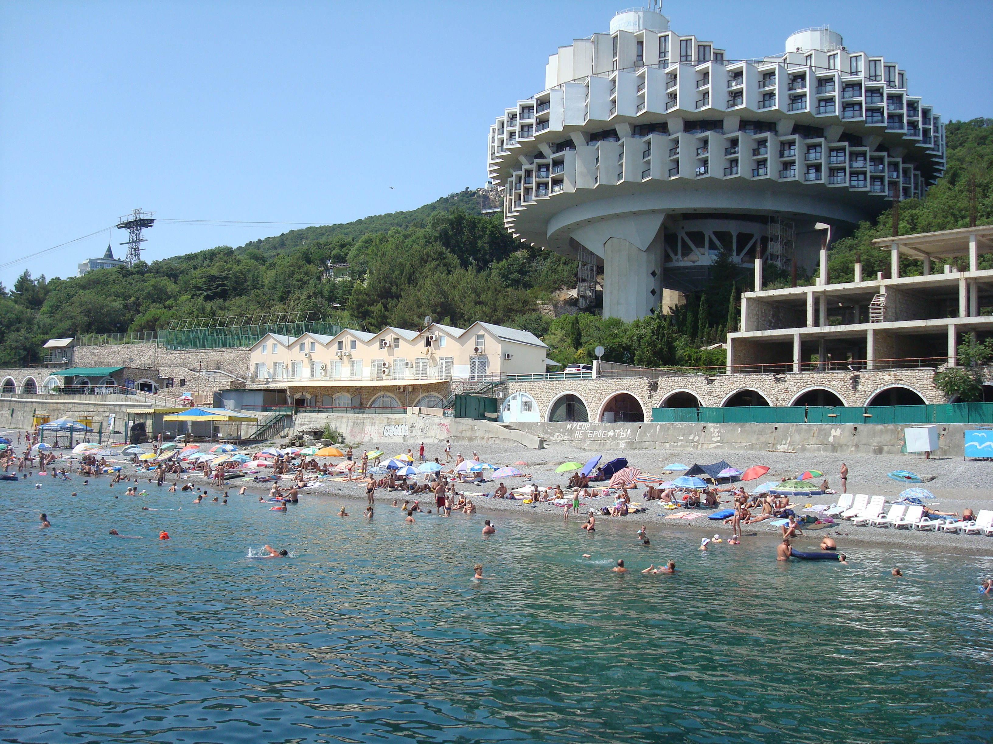 Golden Sands in Kurpaty